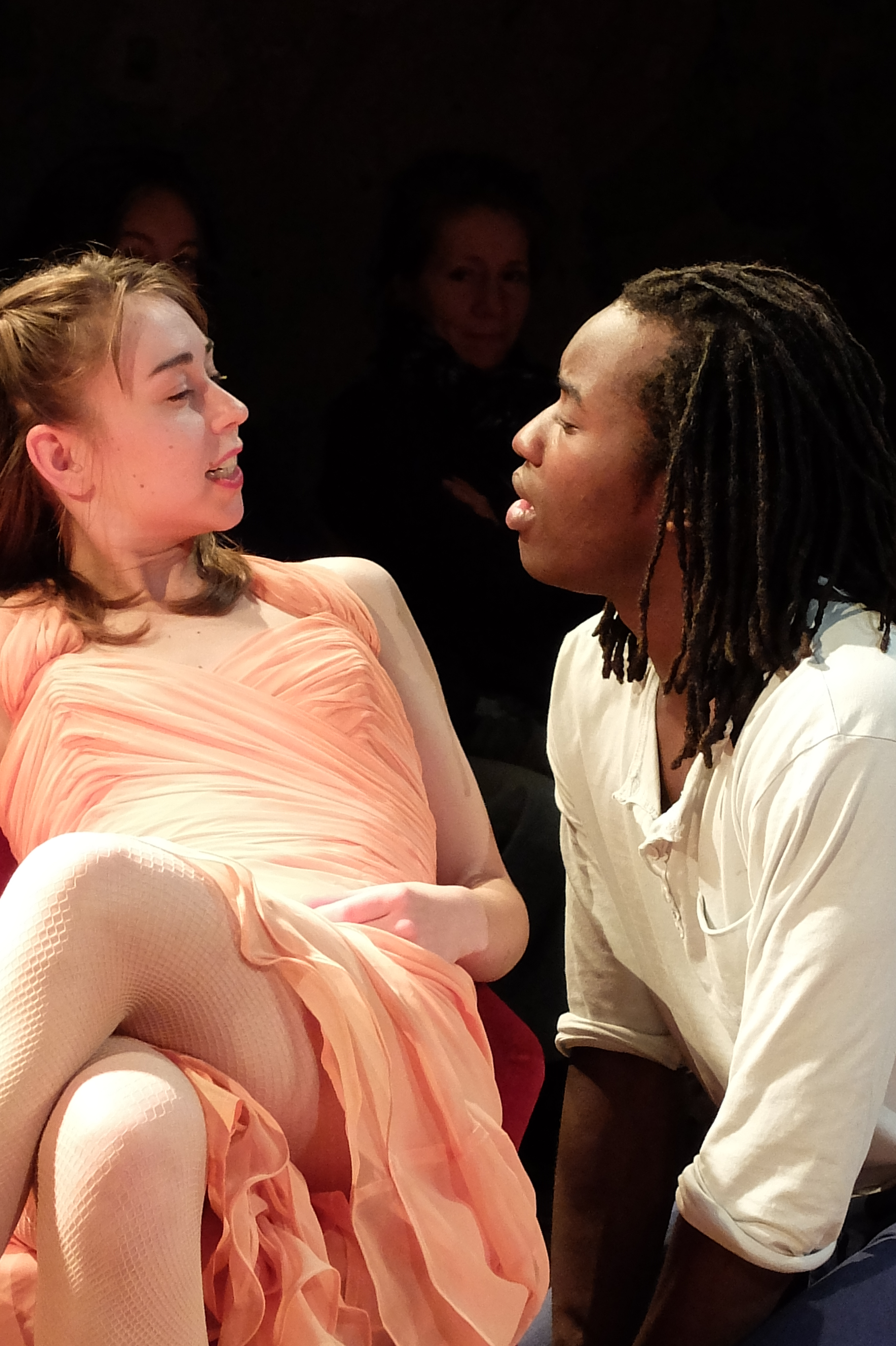 Kristel Largis-Diaz et Francis Bolela dans Festin de jeunesse de Dominique Sels, Paris, 31/10/2015, Studio Le Regard du Cygne